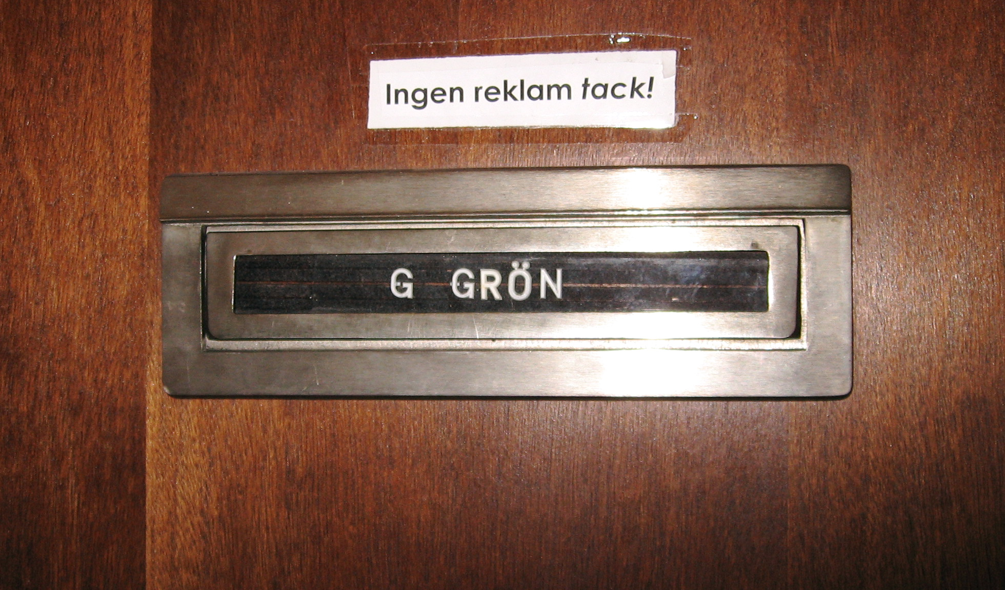 I was in a appartment boulding when I found this box that will be just perfect for my user talk. The pic was tacken i Göteborg, Sweden.